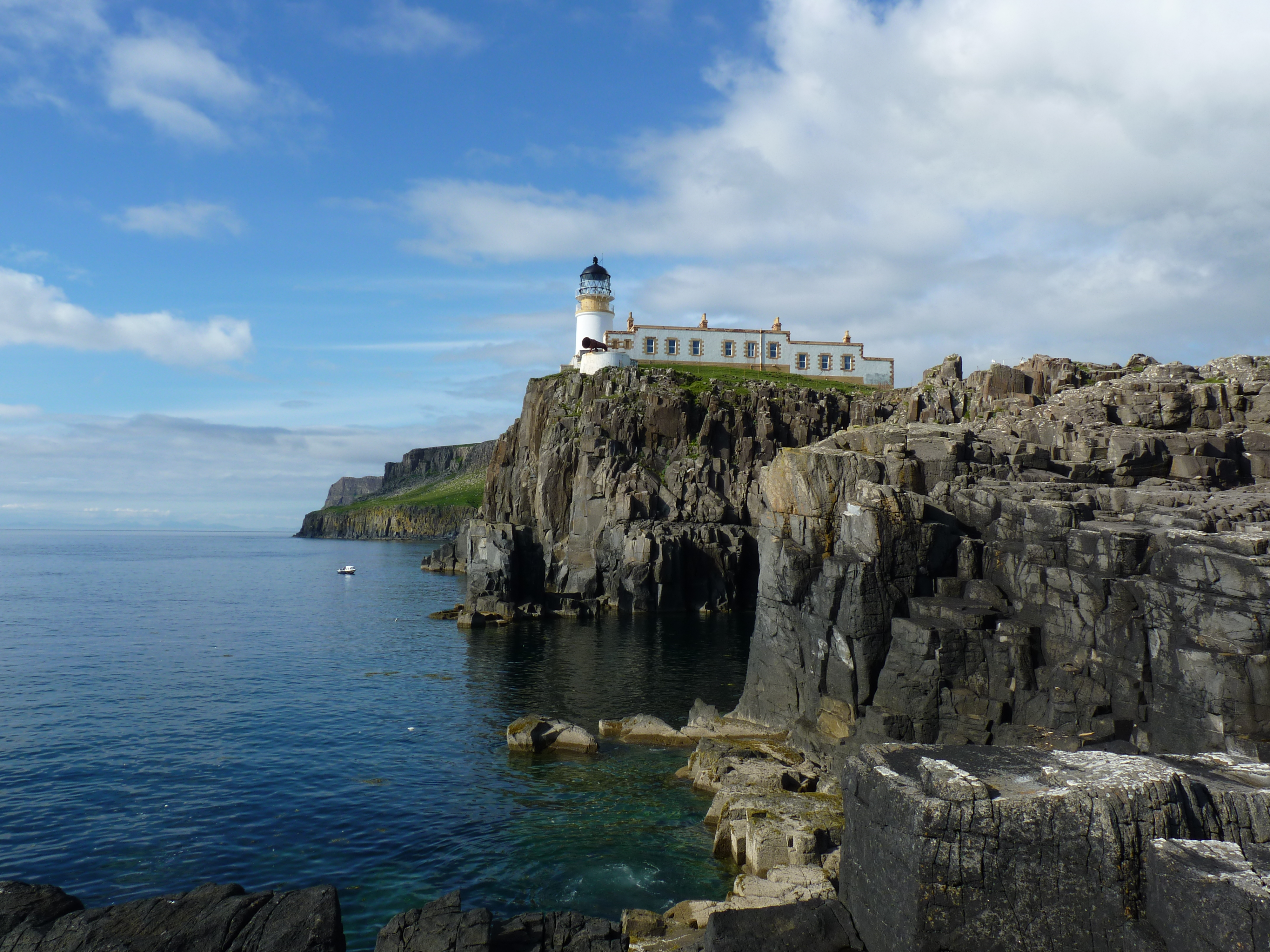 Neist Point Lighthouse viewed from the south-south-west